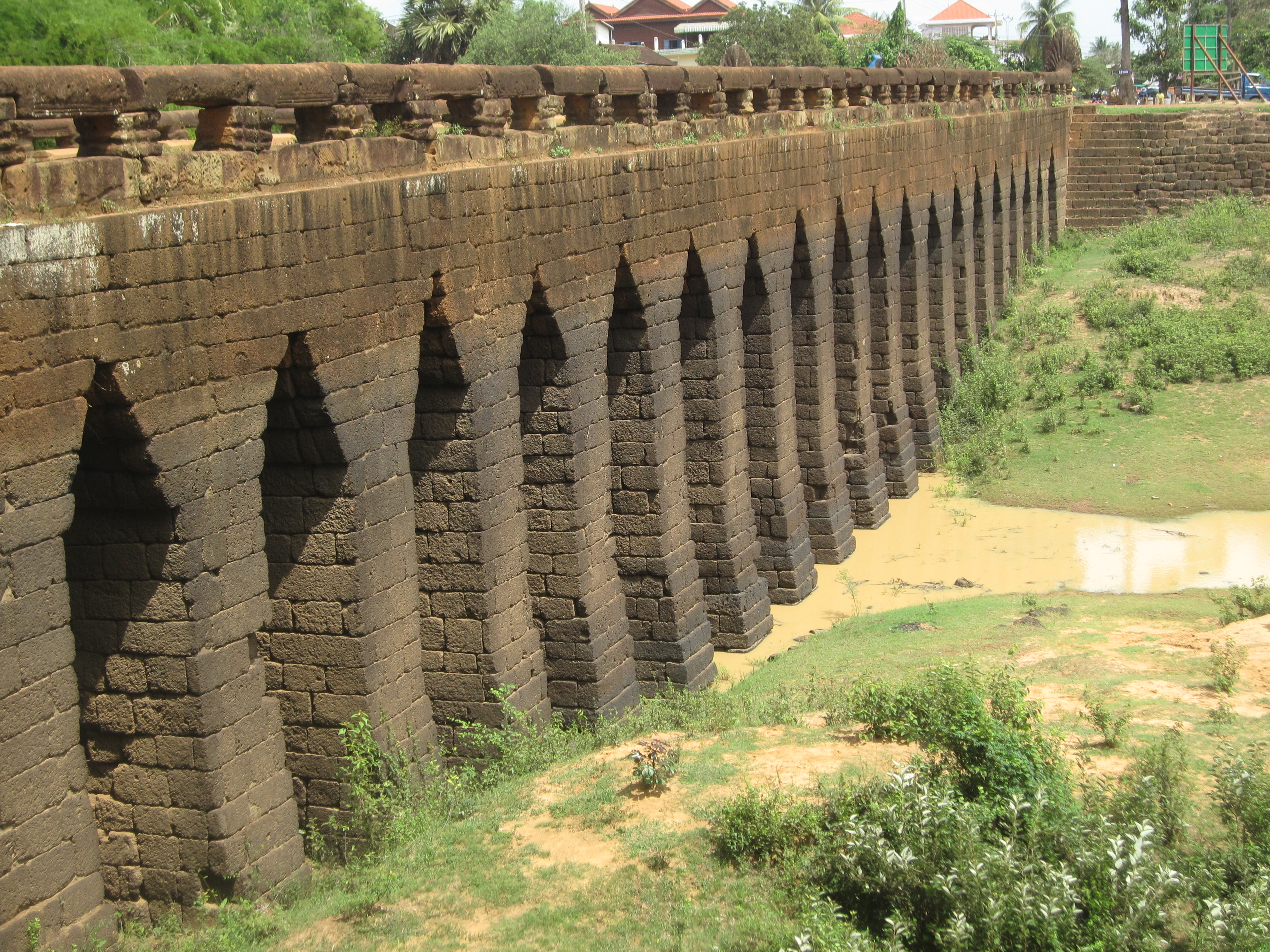 Spean Praptos, a corbel bridge in Kampong Kdai, Siem Reap Province, Cambodia. The bridge was built in the 12th century during the reign of King Jayavarman VII.